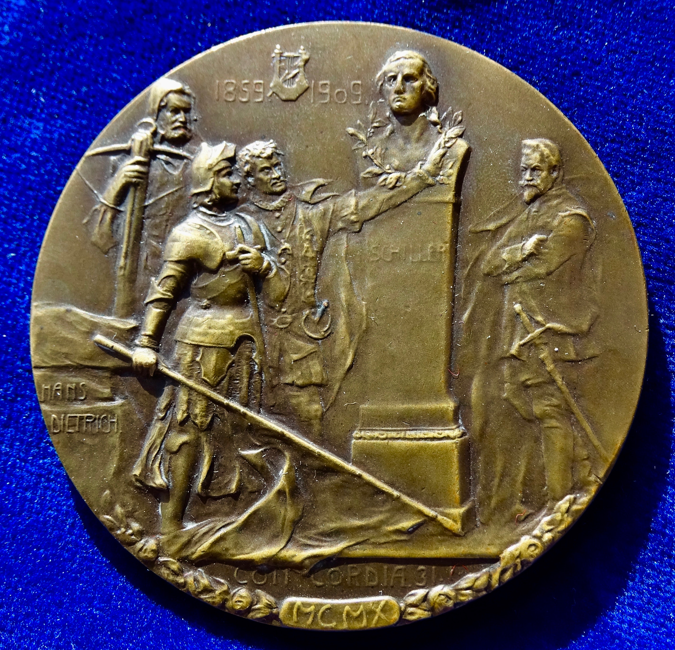 Schiller's 150th Birthday, Art Nouveau uniface Bronze-Medal 1909 by Dietrich. Medallion d. = 60 mm. Schiller, Friedrich von, 1759 Marbach, Württemberg - 1805 Weimar, Thuringia, Germany. "SCHILLER" in pillar topped by his bust. 4 figures of his dramas standing. L. above "1759" and "1909" divided by harp. In exergue 2 lines: "CON CORDIA 31.1. MCMX". Wurzbach 8229. Artist: Hans Dietrich, 1868 Zauchtel, Mähren, today Suchdol nad Odrou, Czech Republic - 1936 Wien, Austria. Condition: EXTREMELY FINE.